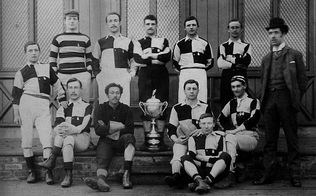 Darlington F.C. team posing with a trophy. Players are: (back row): G. Millar, W. Brooks, J. Davison, Tommy Waites, Michael Hope, Harry Hope. (front row): R. T. Stabler, Arthur Wharton, J. H. Smeddle, R. B. Buckton, J. T. Hutchinson; Standing, in dark clothes: Charles Samuel Craven.